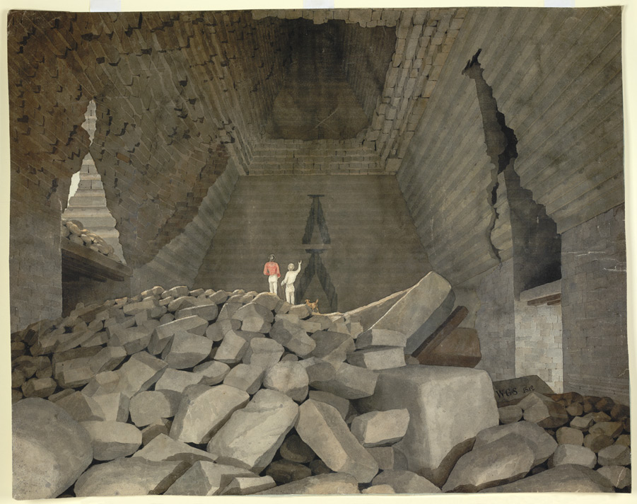 The great Sun Temple of Konarak stands on the Bay of Bengal, where thousands of pilgrims still come to bathe in the water during the spring festival to celebrate the birth of the Vedic sun god, Surya. The temple was constructed by Narashimhadev, king of the Eastern Ganga dynasty in the 13th century. Conceived as a gigantic chariot with twelve pairs of carved wheels, this temple is an architectural feat for the Orissan style. It originally consisted of a sanctum with a spire reaching more than 70 metres, an assembly hall and a dancing hall as well as a number of subsidiary shrines. The sanctum and the dancing hall have lost their roofs and it is only the assembly hall which has survived with its large pyramidal roof, the exterior of which is decorated with sculptures of musicians, dancers and maidens. This drawing depicts two figures and a dog inside the assembly hall.